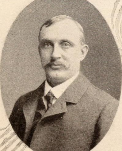 Portrait of New York assemblyman Charles J. Hewitt